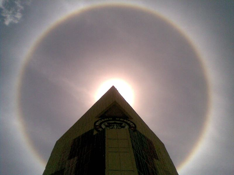 Sun Halo appeared in Padang,Indonesia two days after The 7,6 Magnitude Earthquake destroyed surrounding areas, captured on October 02nd,2009 11.09 AM